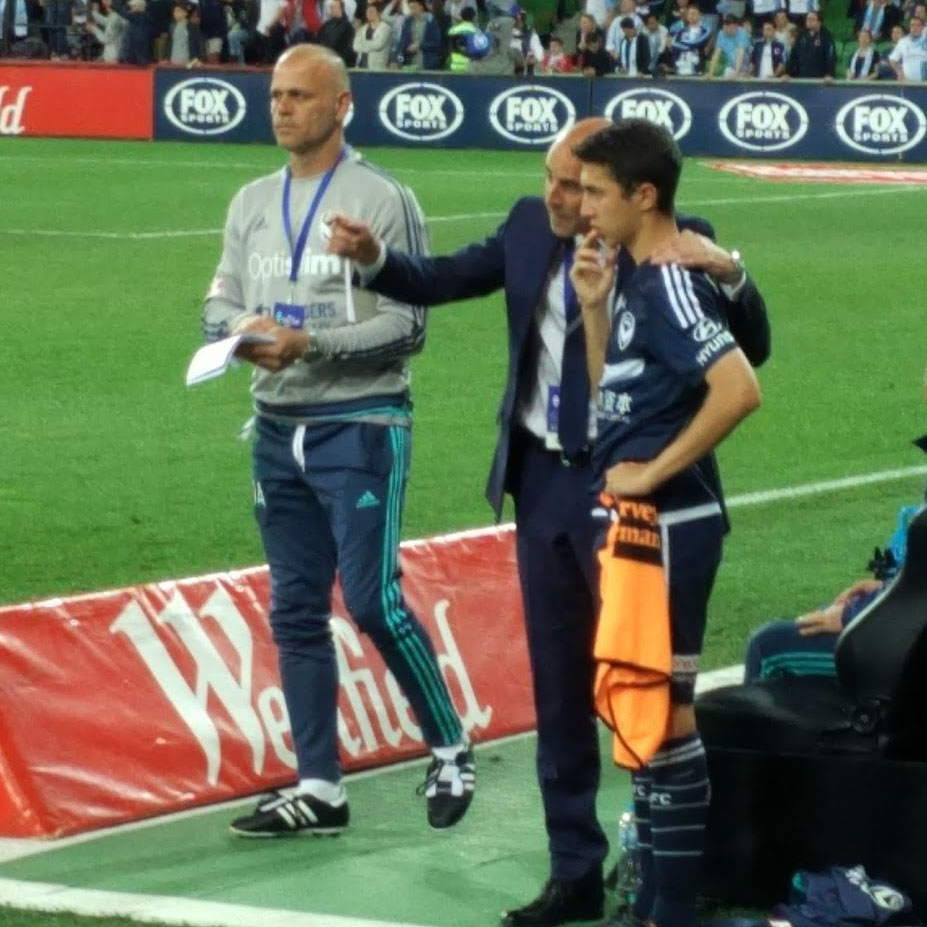 Sebastian Pasquali (right) being given last minute instructions from Melbourne Victory coach Kevin Muscat before being substituted on in the 2016 FFA Cup Semi Final at AAMI Park, Melbourne, October 2016